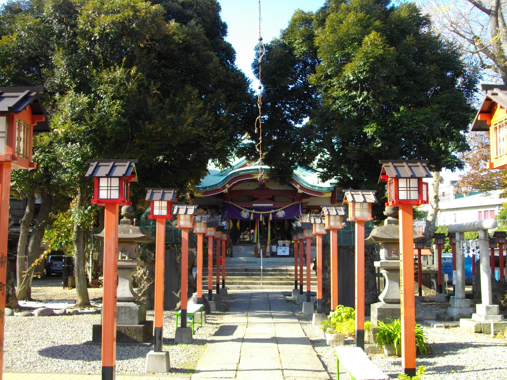 Senju Shrine